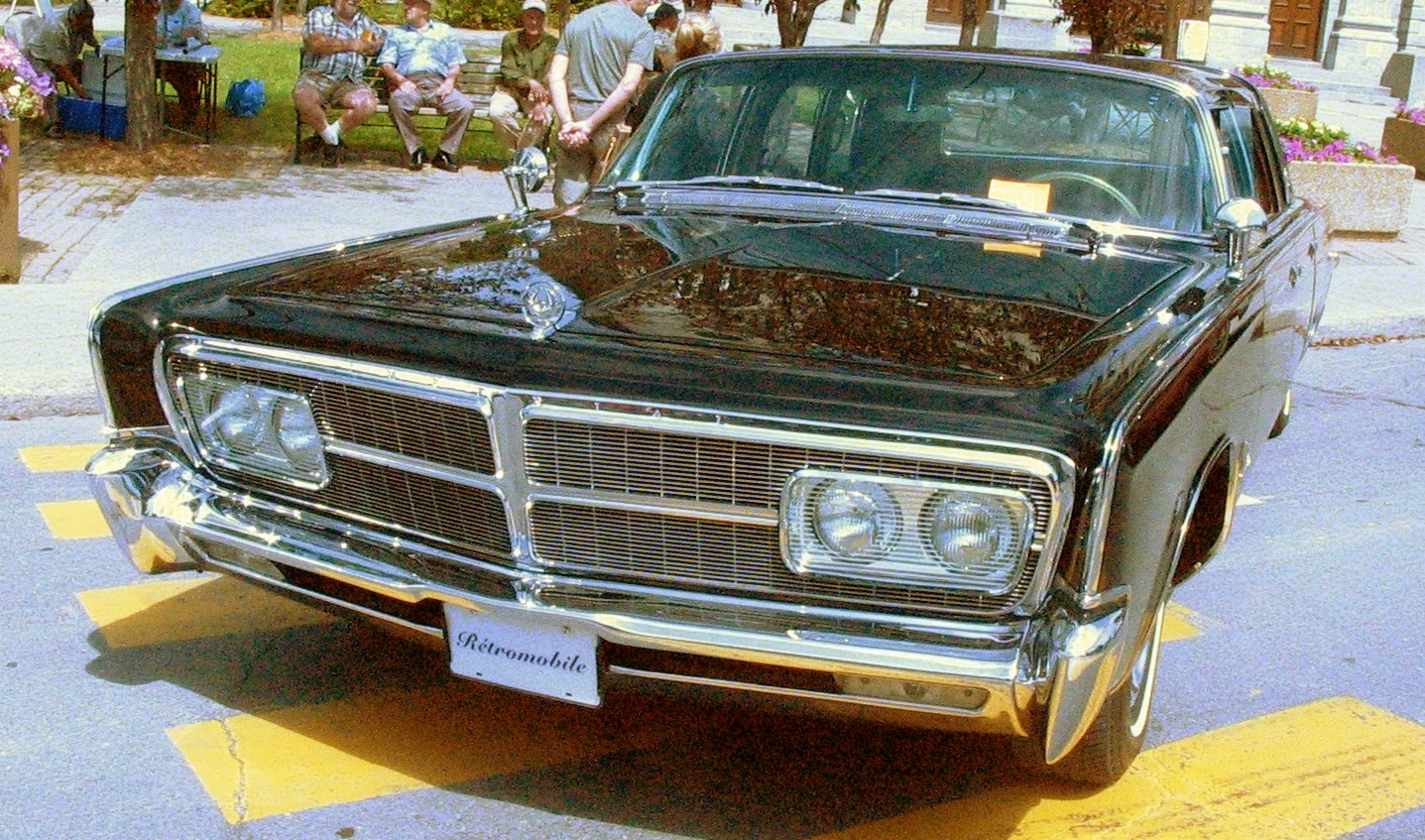 1965 Imperial photographed in Laval, Quebec, Canada at the Auto classique Laval.